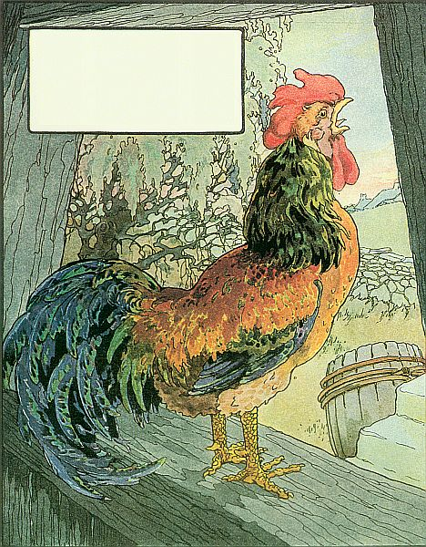 Illustration of a rooster